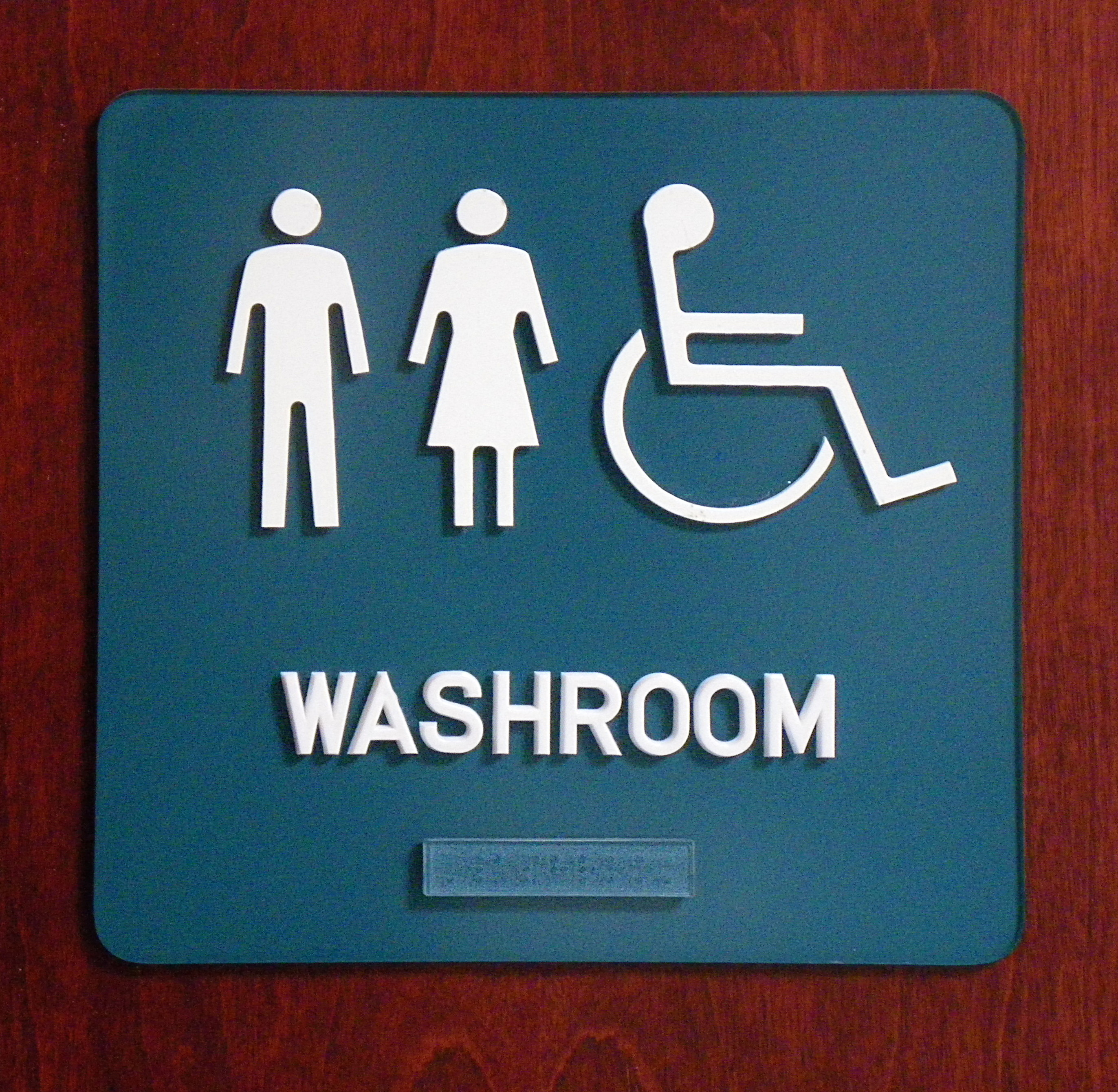 Sign on the door of a unisex washroom